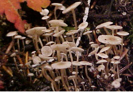 Fruit bodies of the fungus Collybia cirrhata (Schumach.) P. Kumm. Collected in Portland, Oregon, USA. "Notes: This collection was on display at the 2003 Oregon Mycological Society Show, held on October 20, 2003 at Portland, Oregon. The collection was identified by Dr. Lorelei Norvell, and the tag suggests it was saved as a voucher collection for the OMS herbarium."